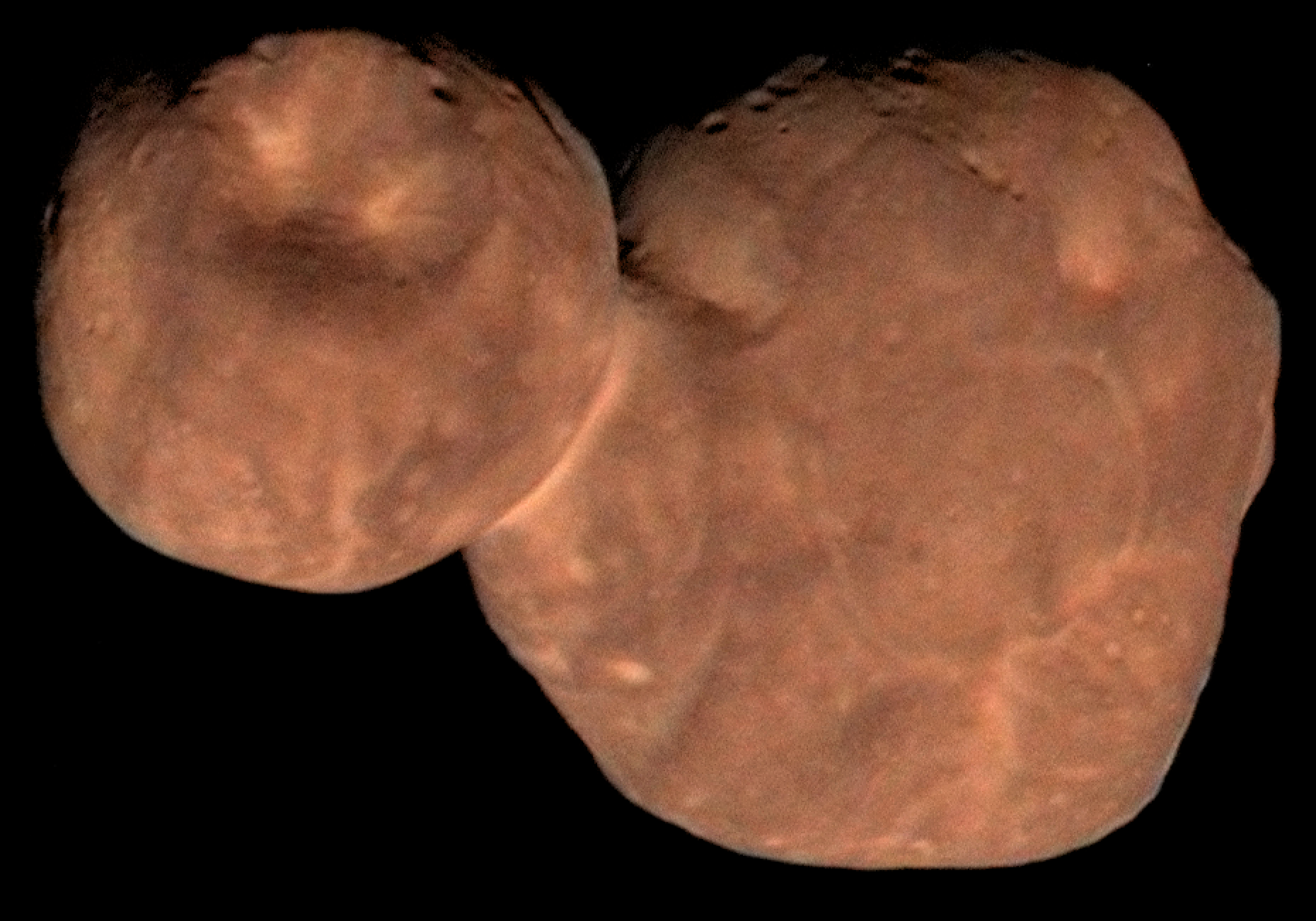 This composite image of the primordial contact binary Kuiper Belt Object 2014 MU69 (nicknamed Ultima Thule) – featured on the cover of the May 17 issue of the journal Science – was compiled from data obtained by NASA's New Horizons spacecraft as it flew by the object on Jan. 1, 2019. The image combines enhanced color data (close to what the human eye would see) with detailed high-resolution panchromatic pictures.